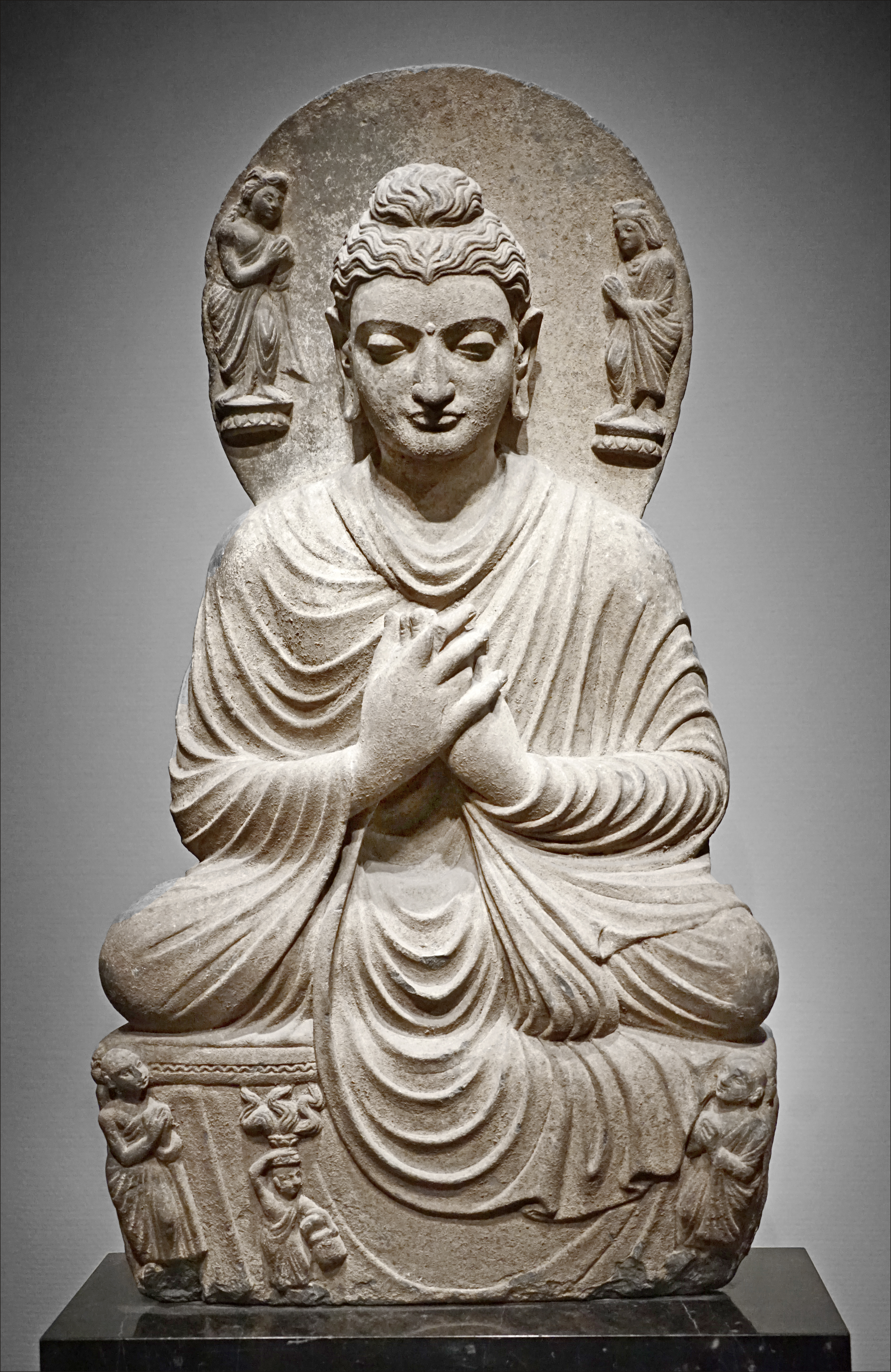 Buddha was the founder of the Indian religion Buddhism. This Kushan-era sculpture reflects the Gandhara style of the Indian subcontinent.